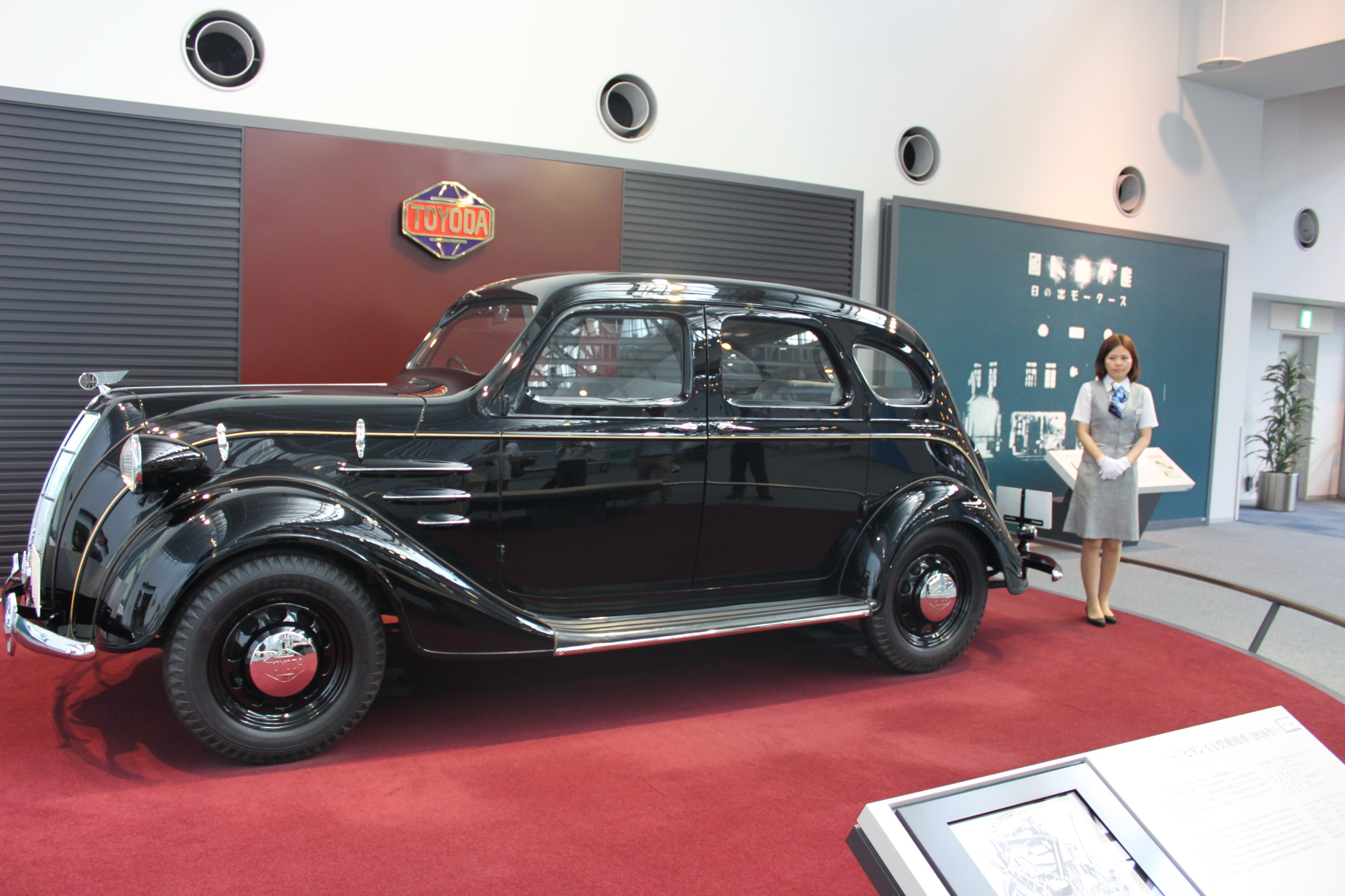 First car made and sold by Toyota / Toyoda. Display at Display at Toyota Museum in Nagakute-cho , Aichi-gun, Aichi Pref. Japan. By Bertel Schmitt